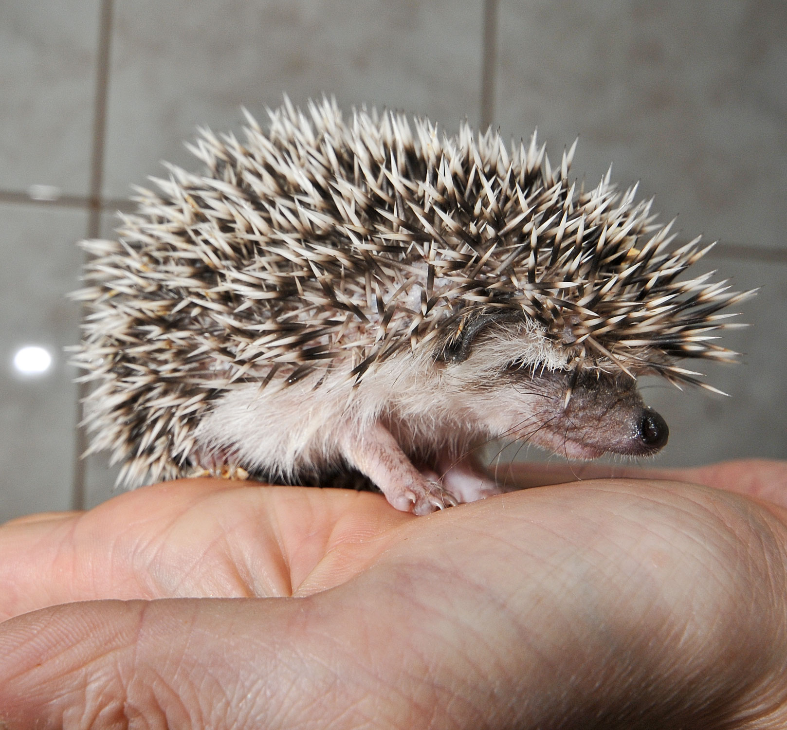 Young (about 1,5 month old) Atelerix albiventris